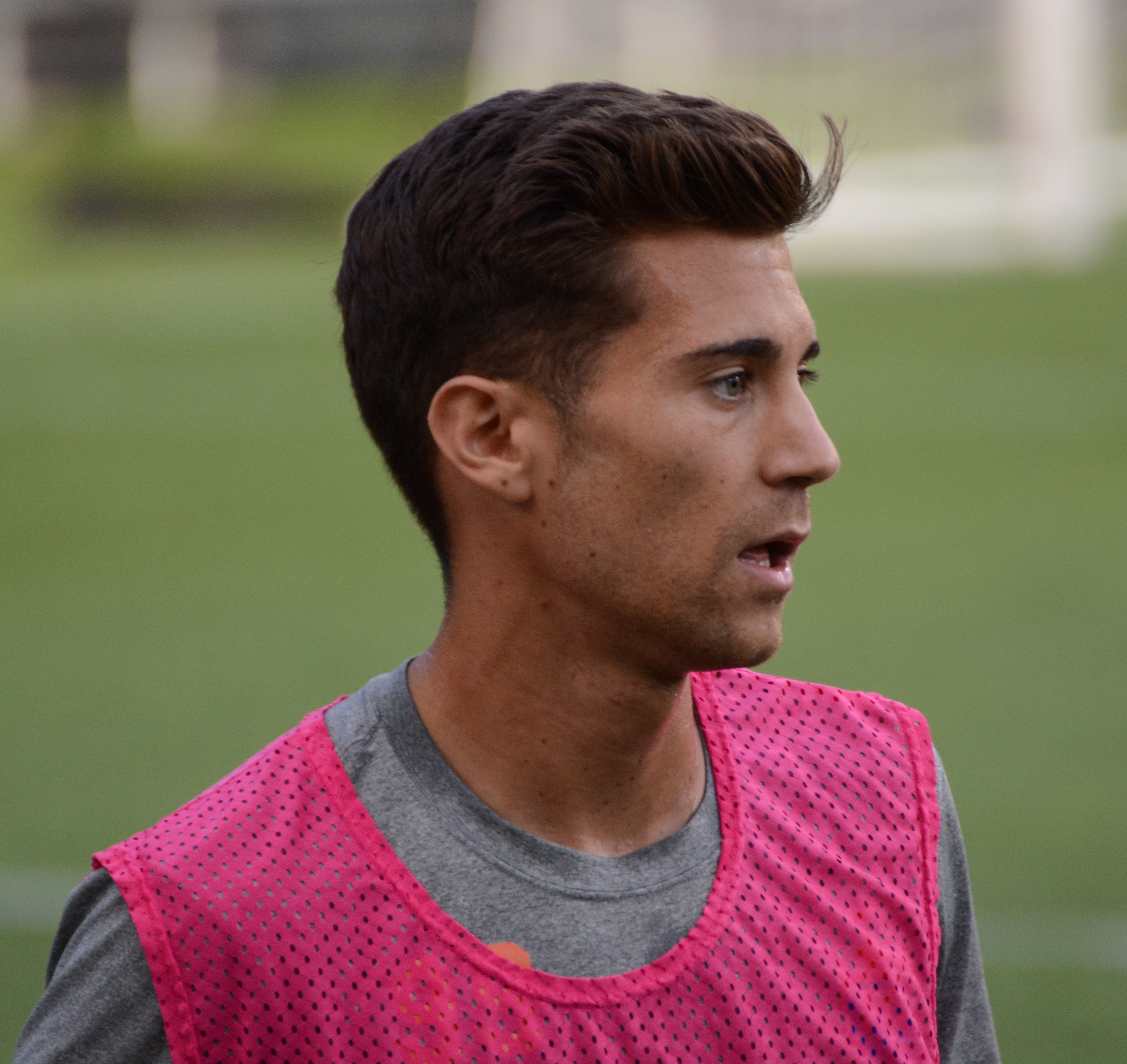 Josu in a practice jersey warming up on the sideline at a U.S. Open Cup match between FC Cincinnati and Chicago Fire SC at Nippert Stadium in Cincinnati, Ohio on June 28, 2017.